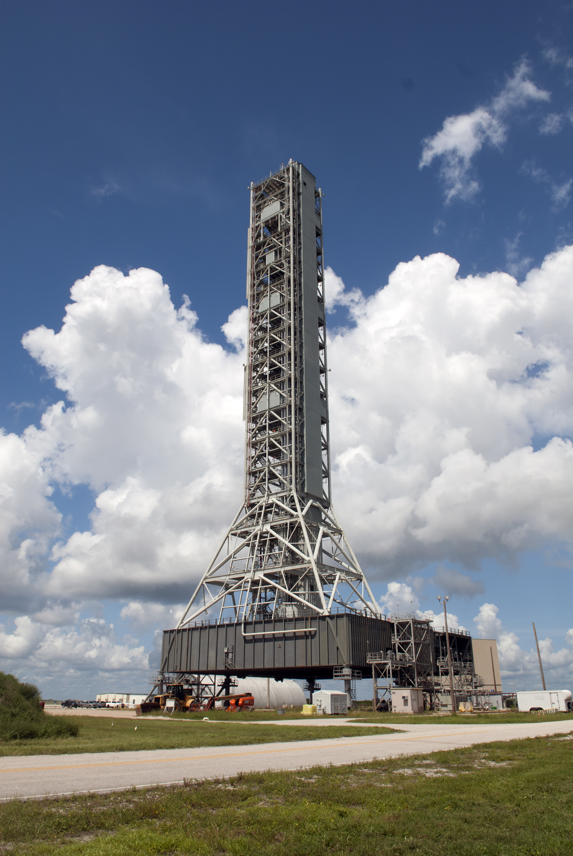 The mobile launcher (ML) that will support NASA's Space Launch System and Orion spacecraft for Exploration Mission-1 is in view at the Mobile Launcher Park Site at NASA's Kennedy Space Center in Florida.